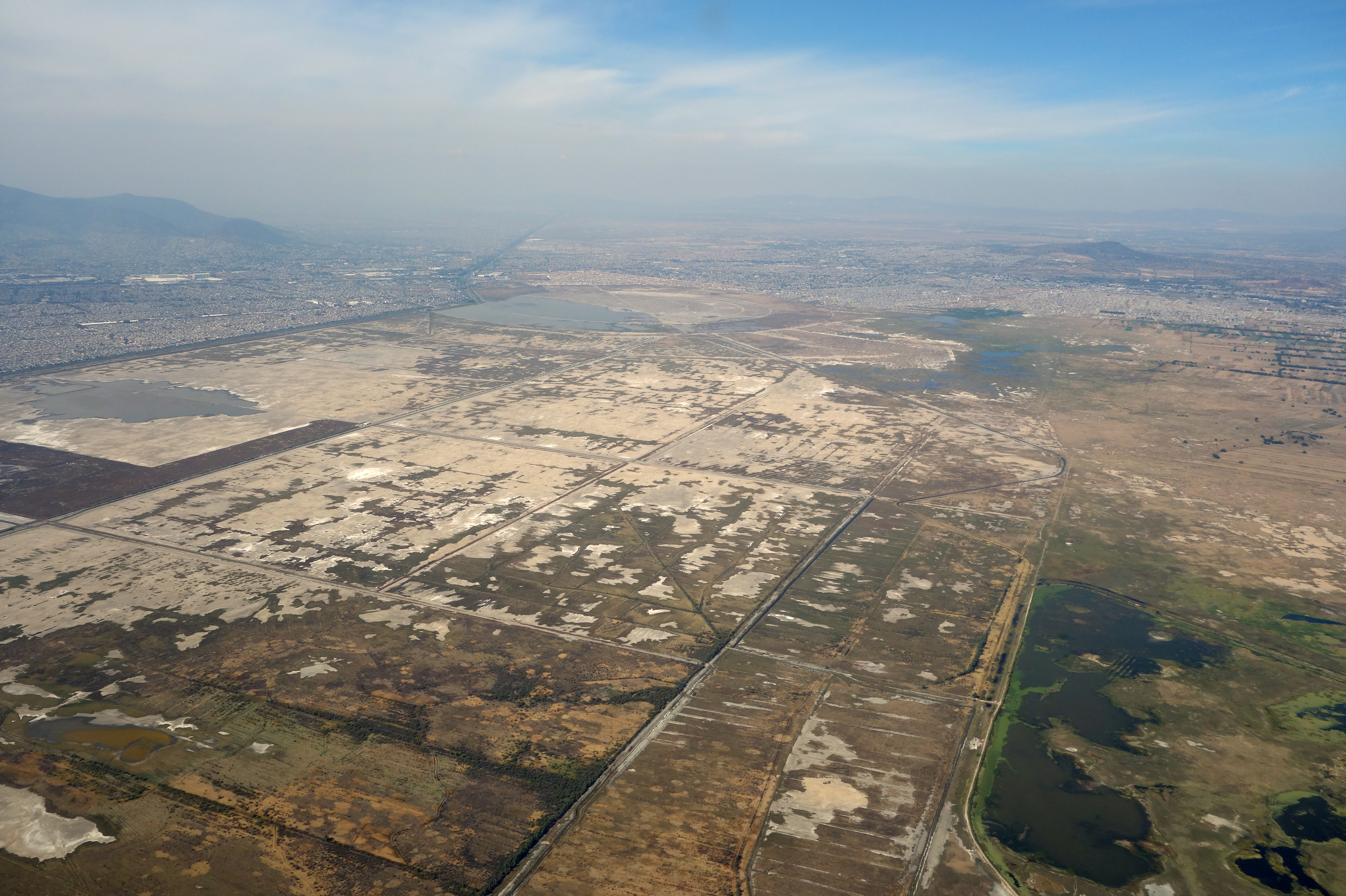 Lake Texcoco seen westwards from the air. Most of the area in the photo is part of Atenco Municipality, while the spiral shaped Caracol and the upper part of the photo is part of Ecatepec Municipality.